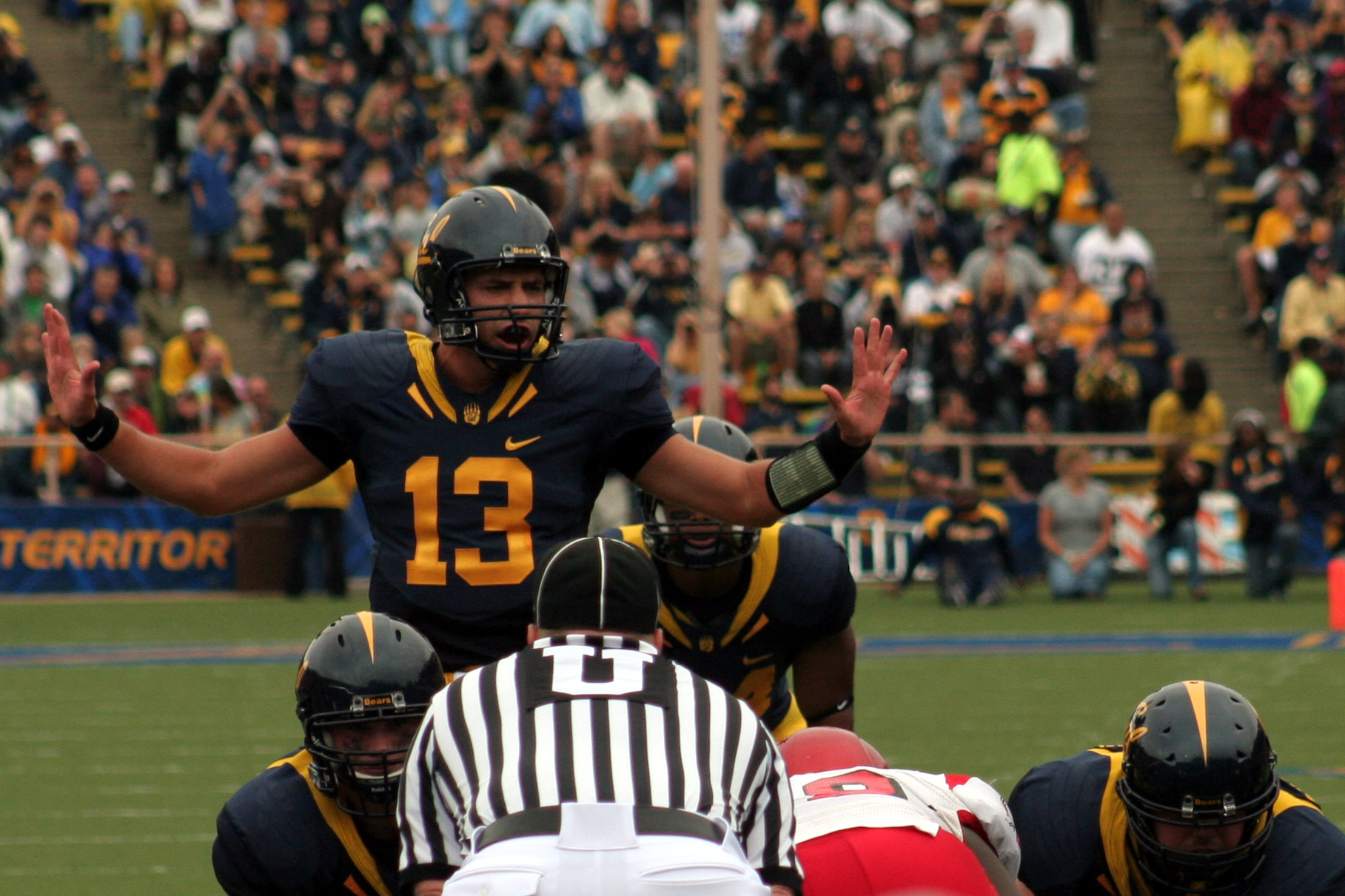 Cal QB Kevin Riley calls out signals at the line of scrimmage during a home game against Eastern Washington.